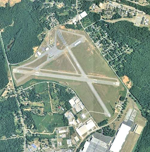 Macon Downtown Airport - Georgia